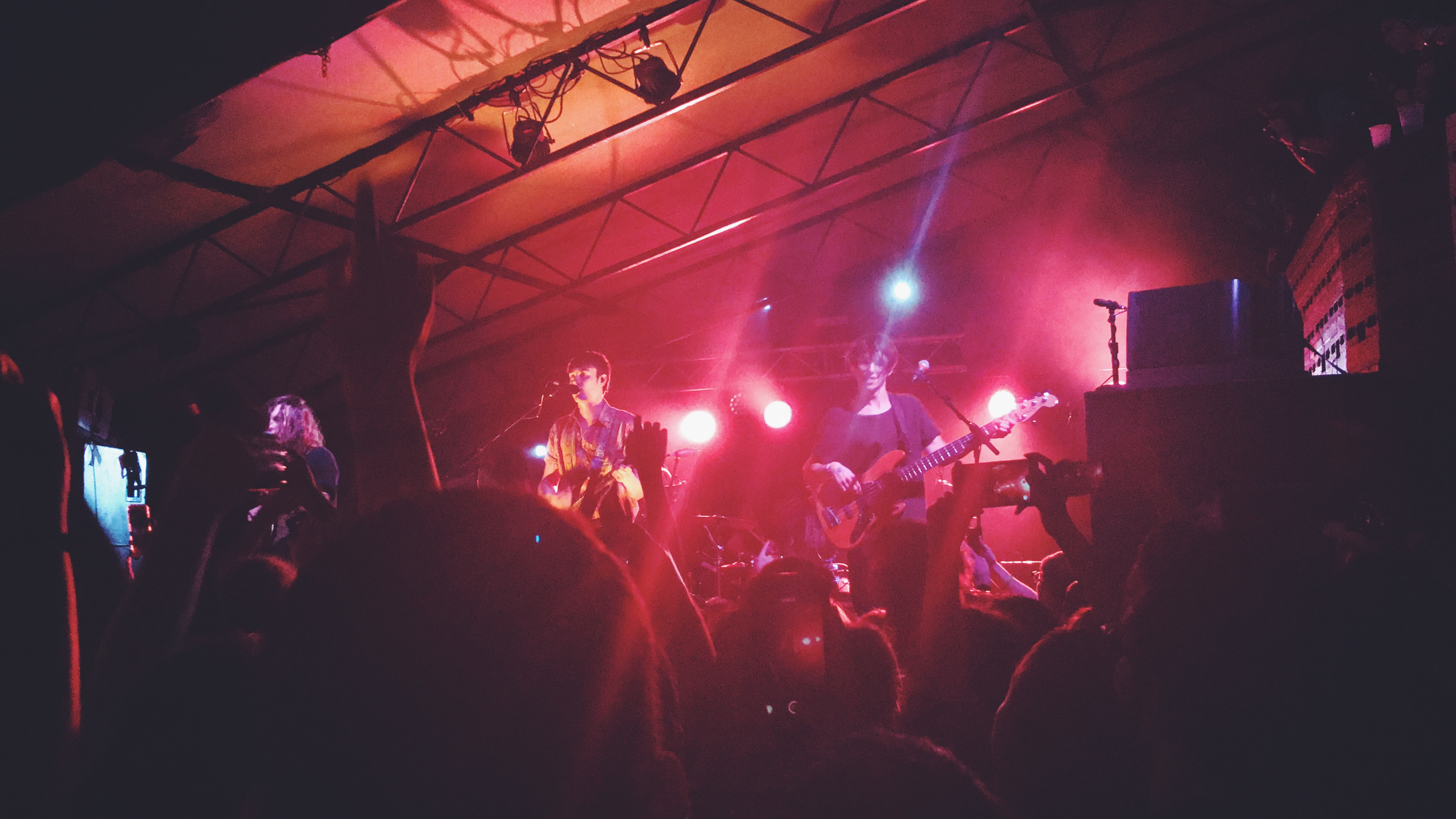 Hippo Campus at the Mohawk in Austin, TX on 11/03/2017